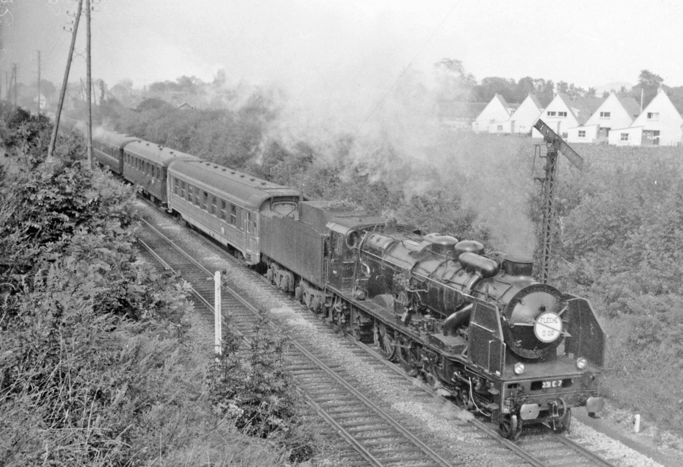 At Pont-de-Briques, just outside Boulogne (Pas de Calais), a class 231-E 4-6-2 is heading for Paris with the 'Flèche d'Or' express, 1963.